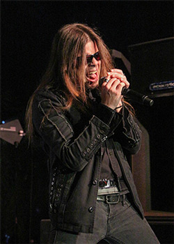 Todd La Torre at the Surf Ballroom in Iowa. March 22nd 2014. Photo by Designs By ML